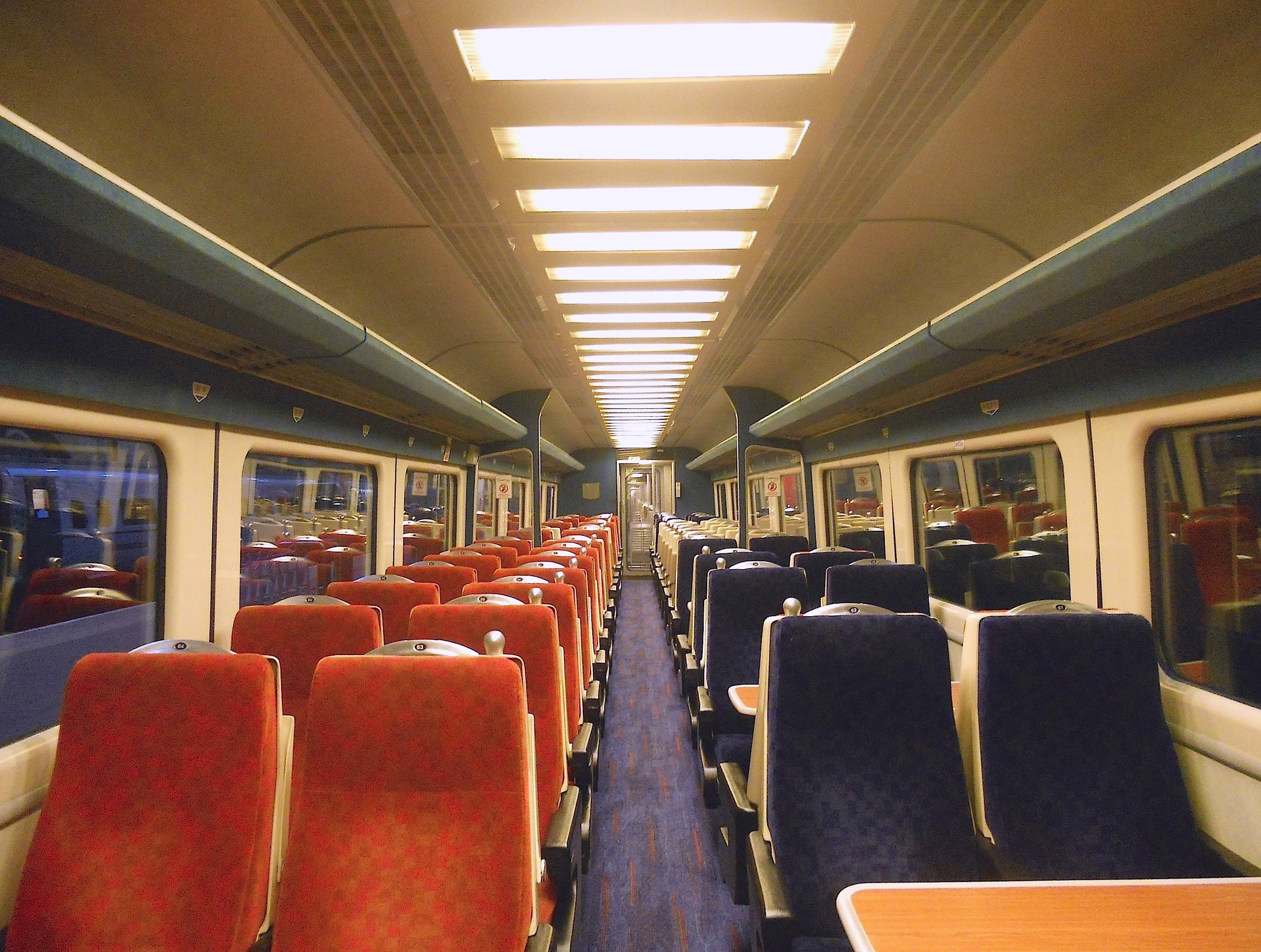 The interior of Virgin Trains refurbished Mark 3A Open Standard